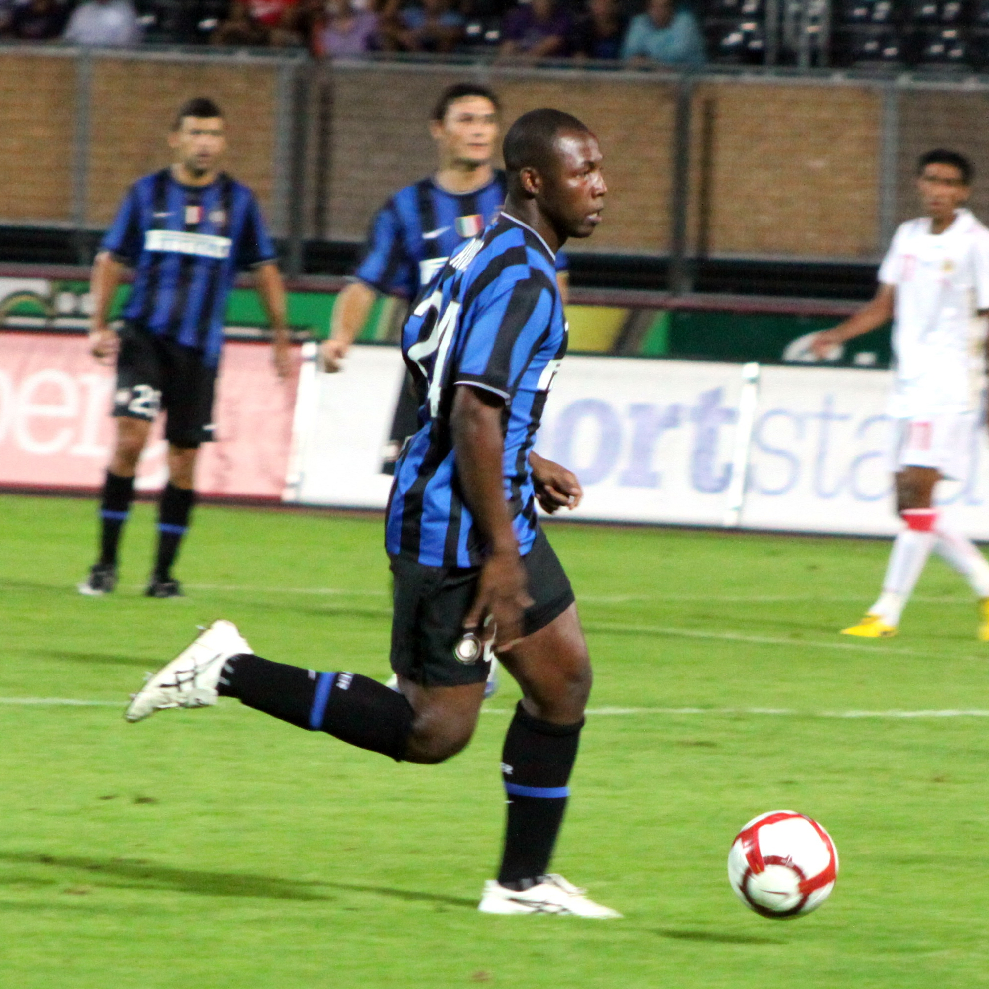 Nelson Rivas - F.C. Internazionale Milano